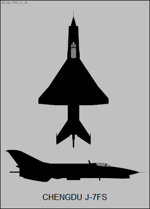 Side-view silhouette of the Chengdu J-7FS